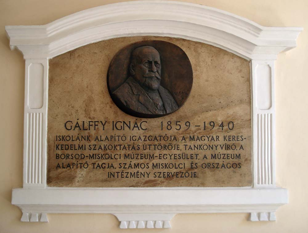 Relief of Ignác Gálffy (Sculptor: Miklós Varga), Miskolc, Hungary